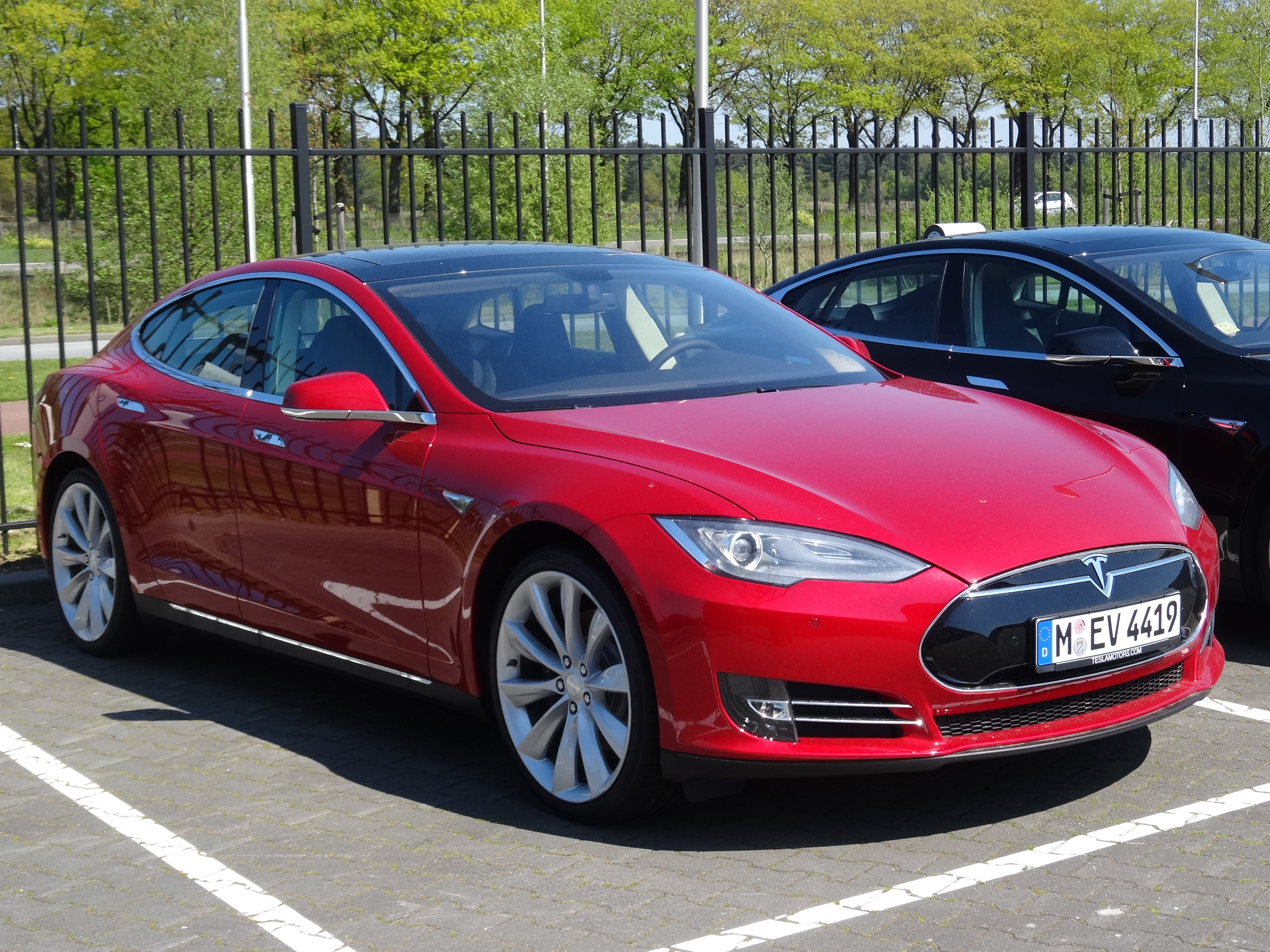 2014 Tesla Model S registered in Munich, Germany